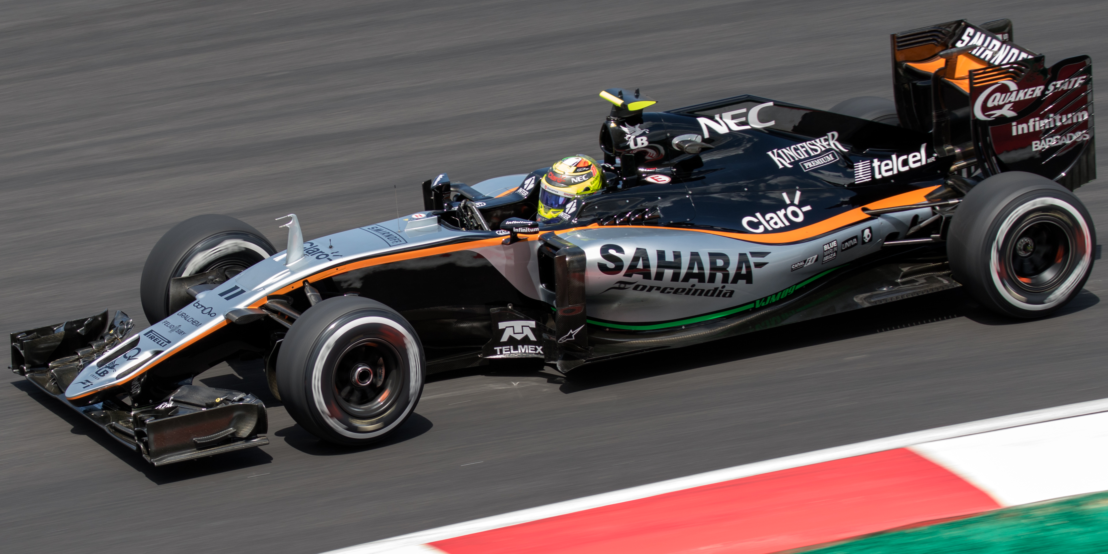 Formula One 2016 Rd.16 Malaysian GP: Sergio Pérez (Force India)